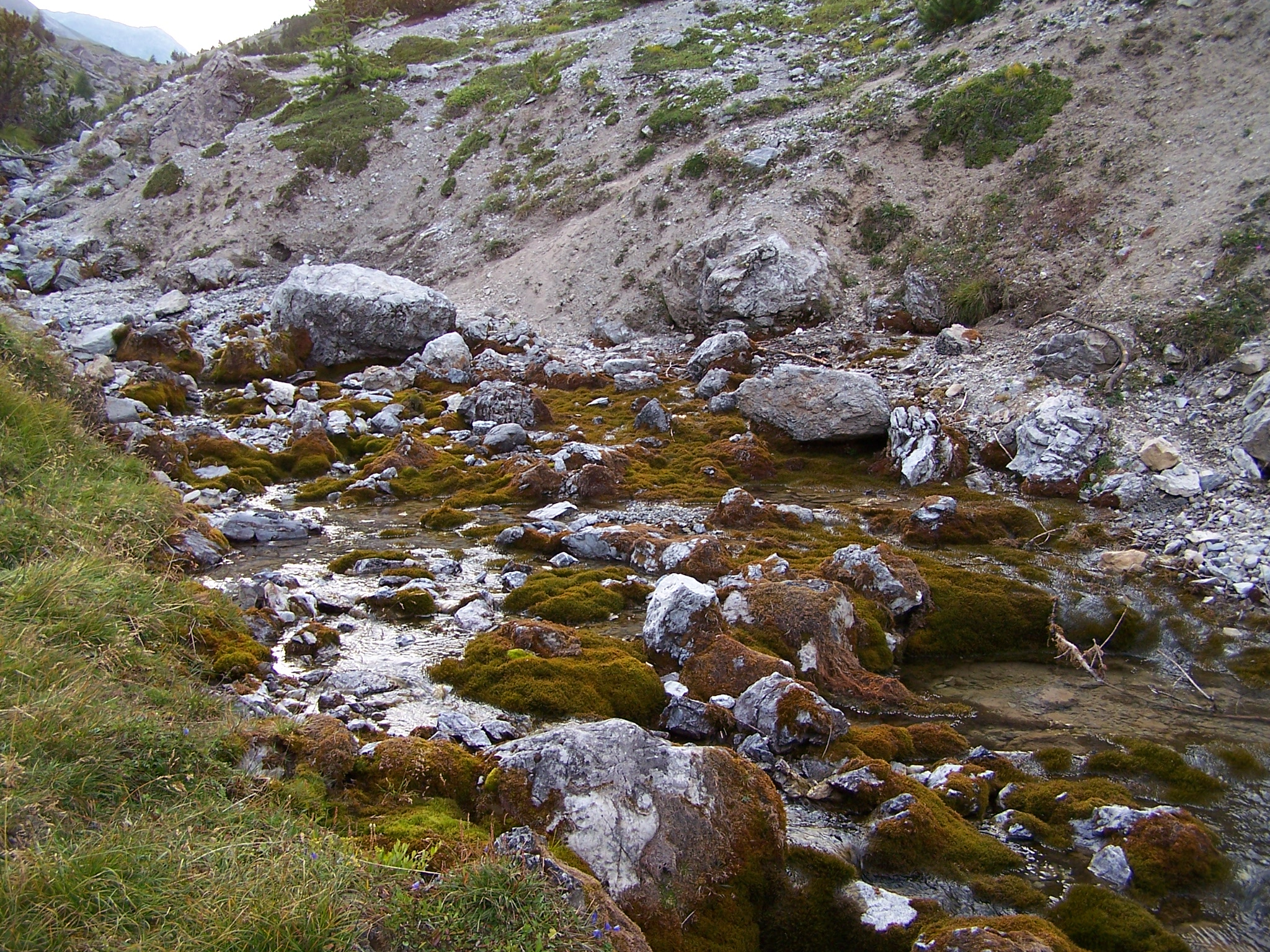 Adda spring, Valtellina, Alps, Italy